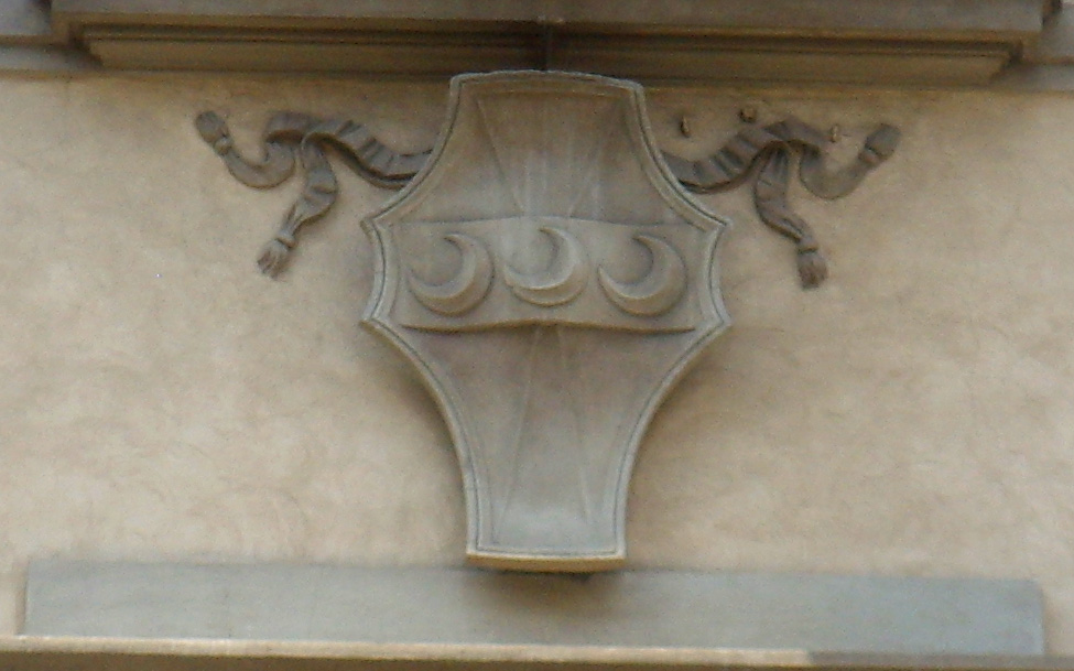 Coat of Arm of Strozzi family in Florence, Italy